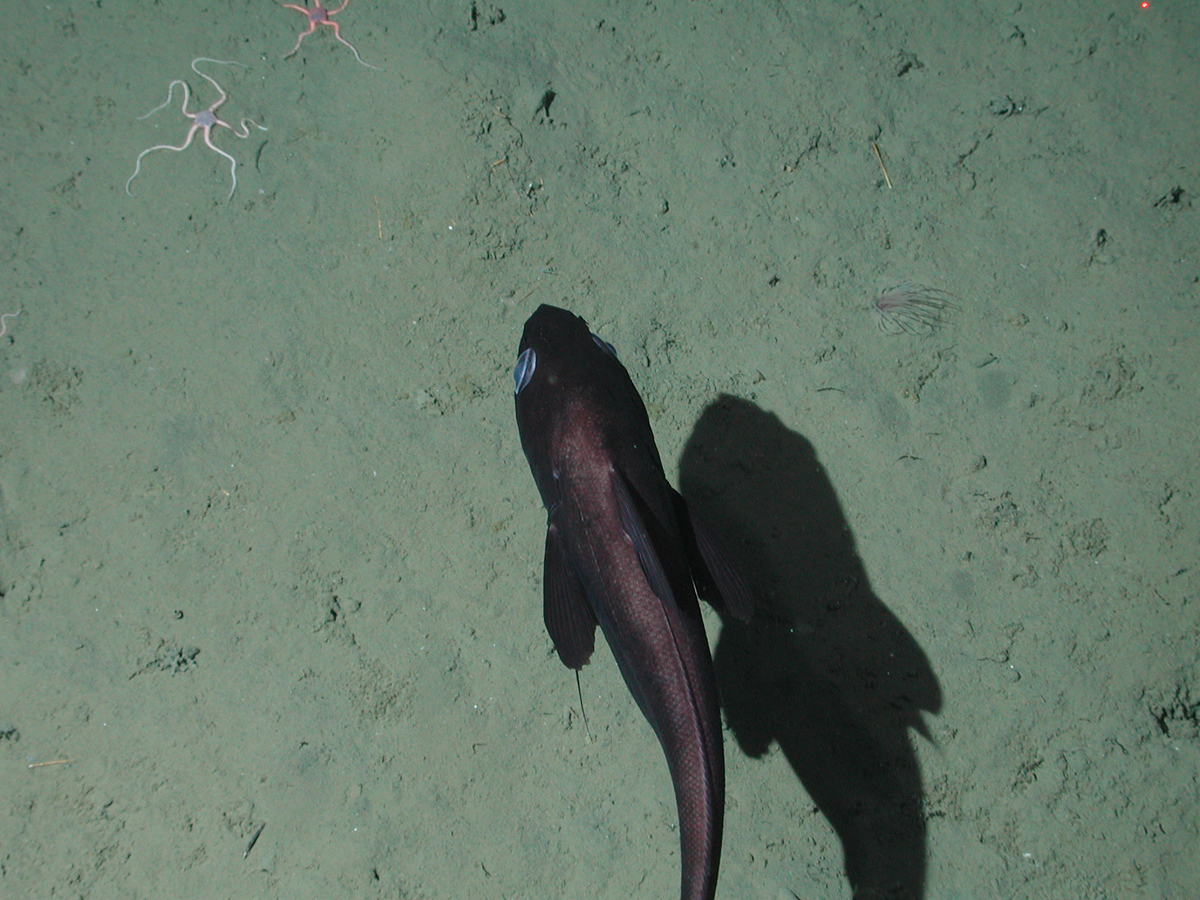 Filamented rattail (Coryphaenoides filifer) and brittlestars on the Davidson Seamount at 2854 meters depth.